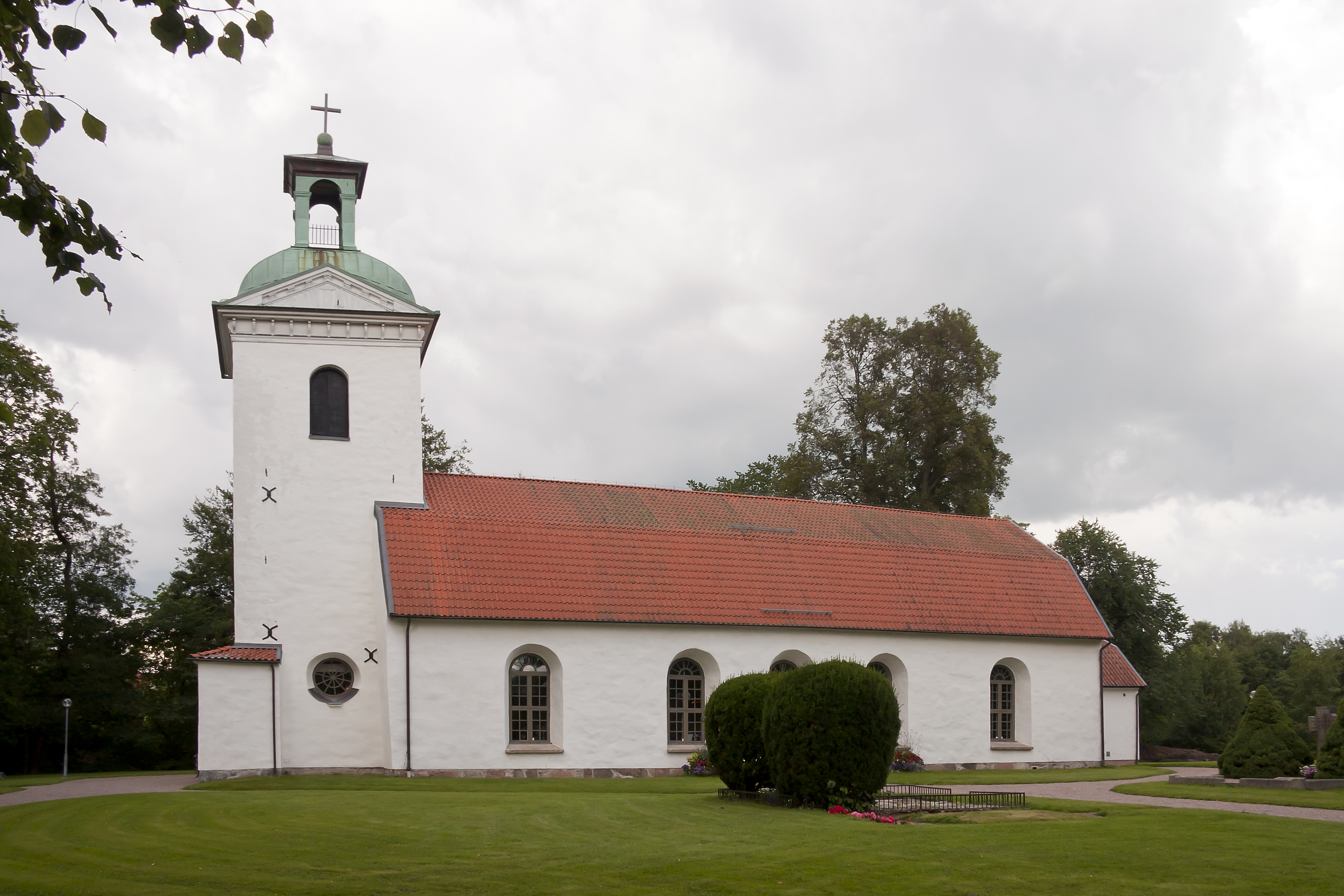 Landskyrkan, a church in Alingsås, Sweden.